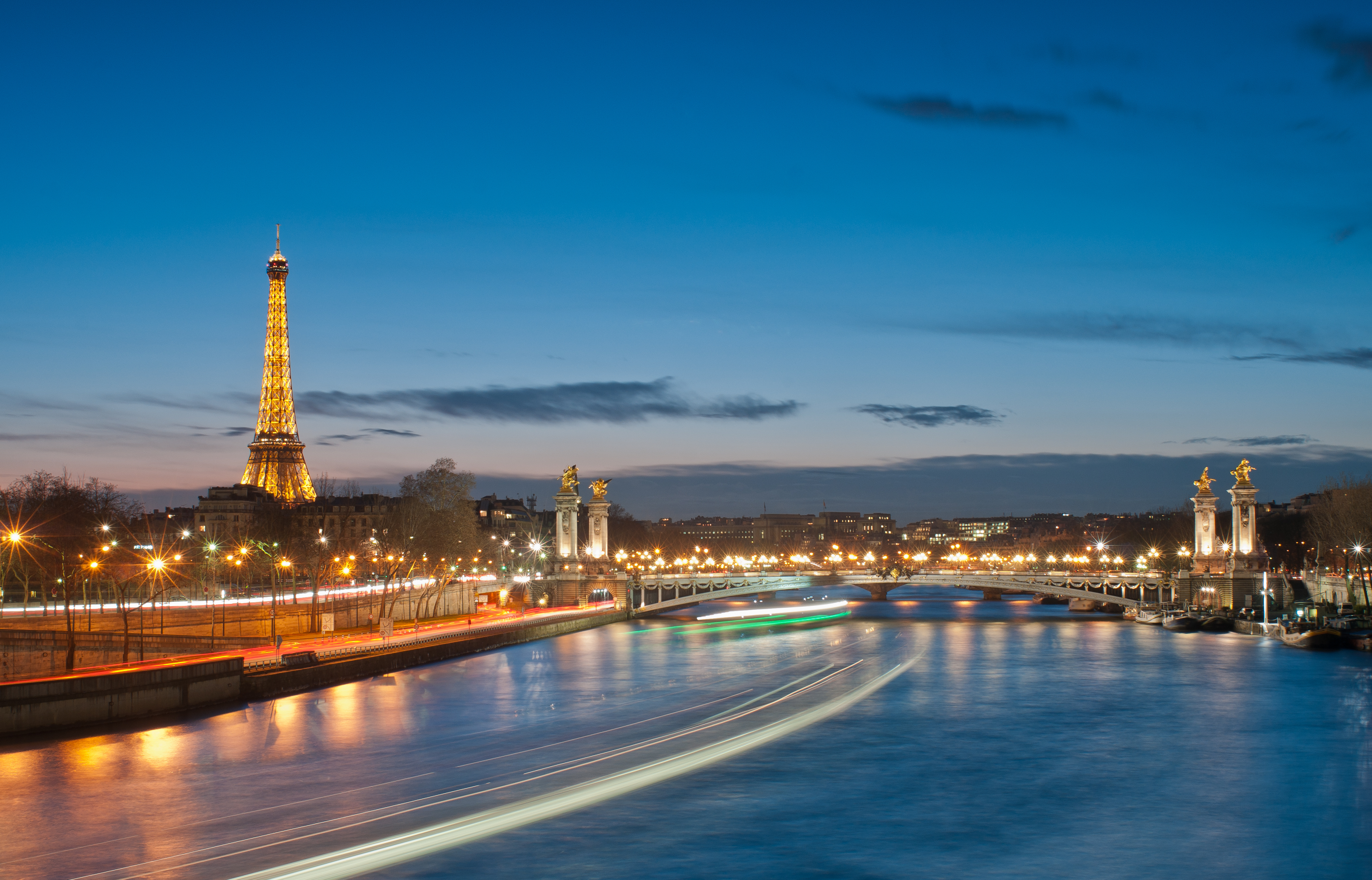 Eiffel Tower and Pont Alexandre III at night.